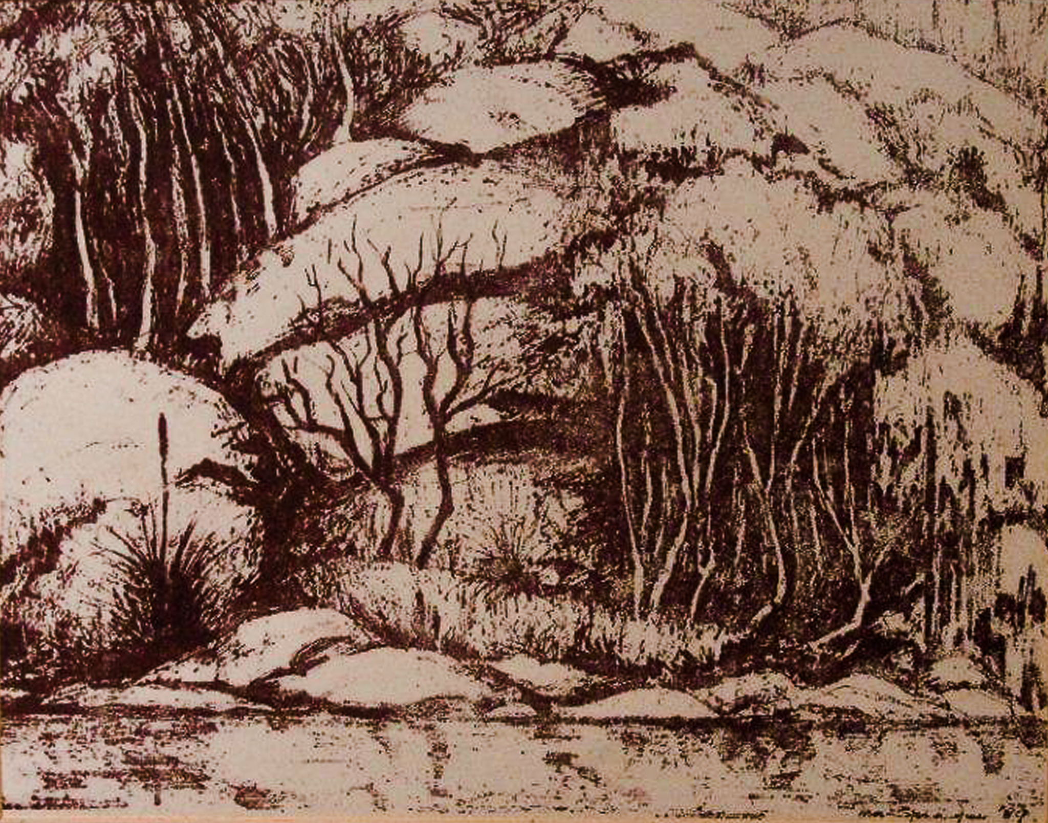 Lithograph "Hawkesbury Scene" Ian Sprague 1989; photographed in a private collection at Enfield Victoria